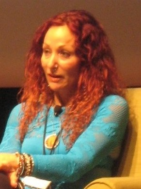 American comics artist Aline Kominsky-Crumb at the “Comics: Philosophy & Practice,” convention at the Gray Center, University of Chicago.